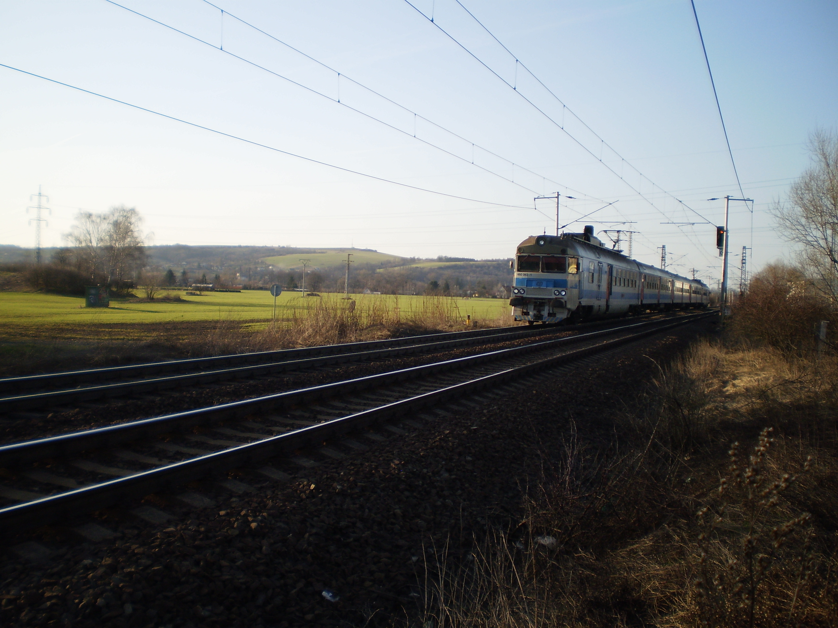 Electric multiple unit class 460 of České dráhy railway operator between stations Valašské Meziříčí - Brňov on railway line 280, Vsetín District, Zlín Region, Czech Republic